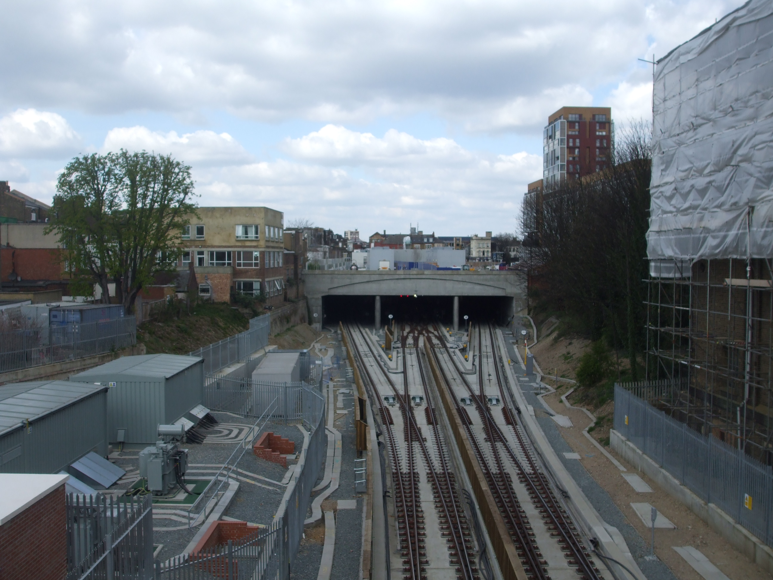 Dalston Junction station on the London Overground. View looking north towards the station from road bridge just a few days prior to opening in April 2010. Note four platforms.